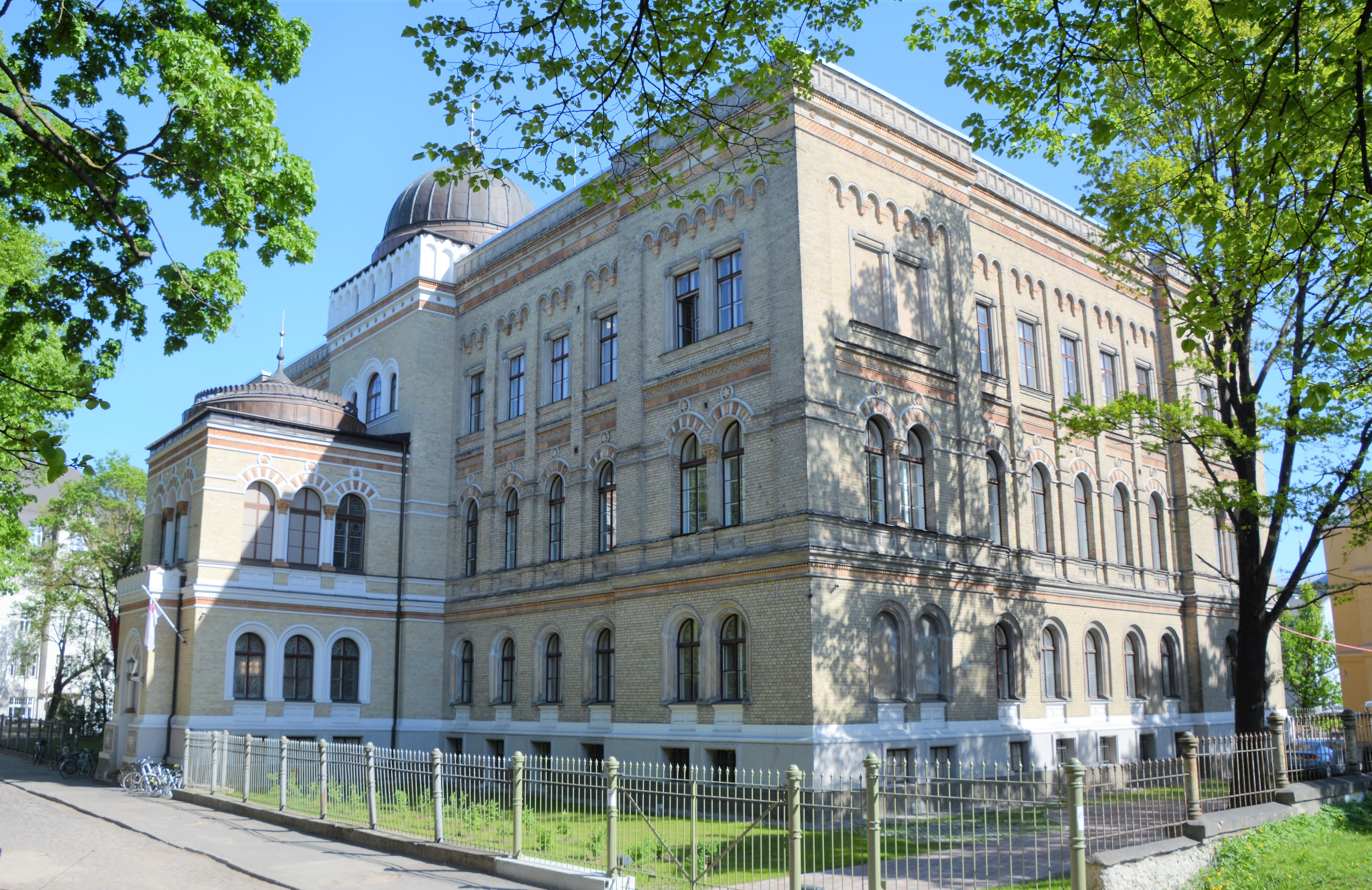 Rigas Stradina universitate